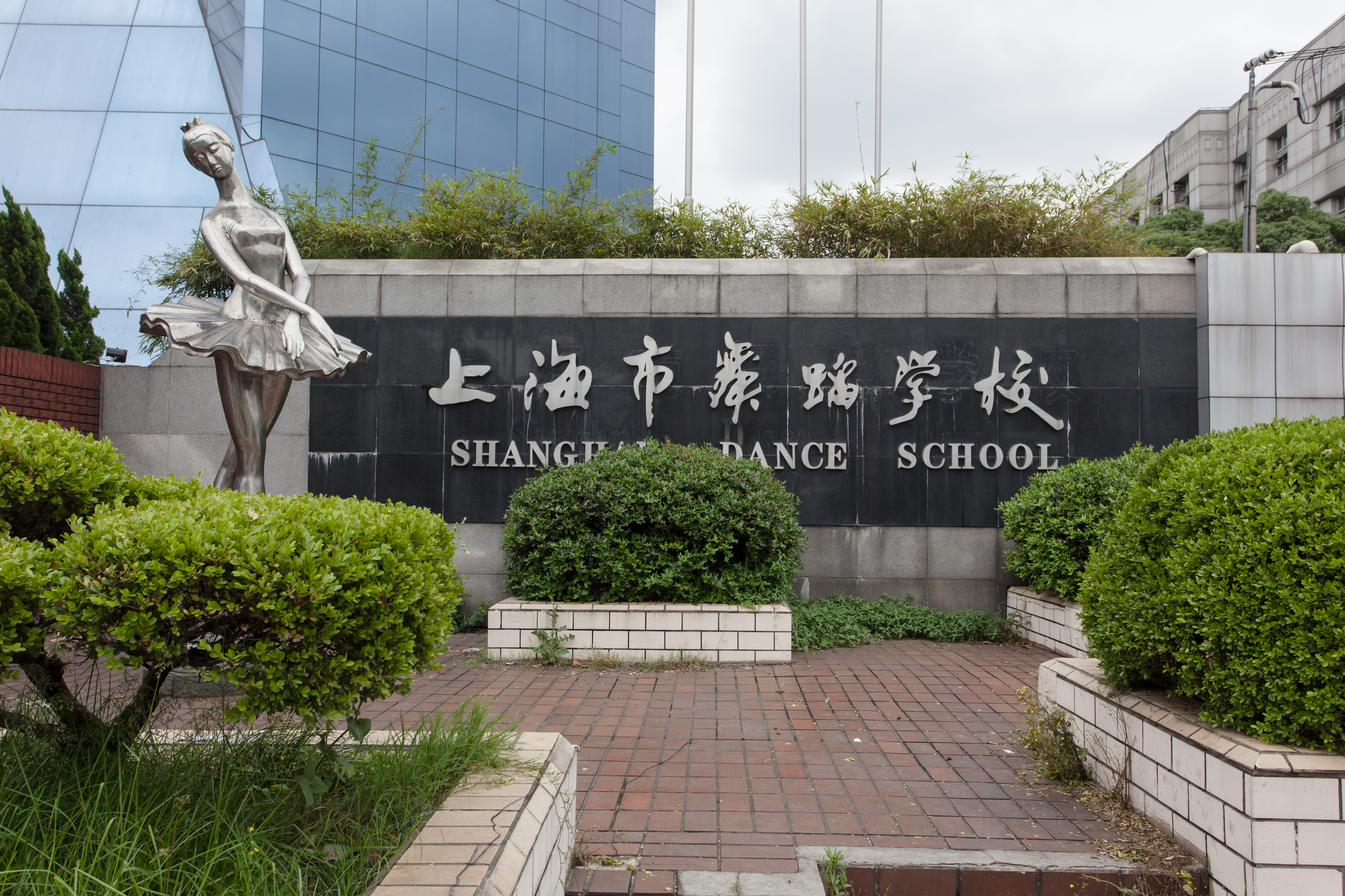 Shanghai Dance School, China.